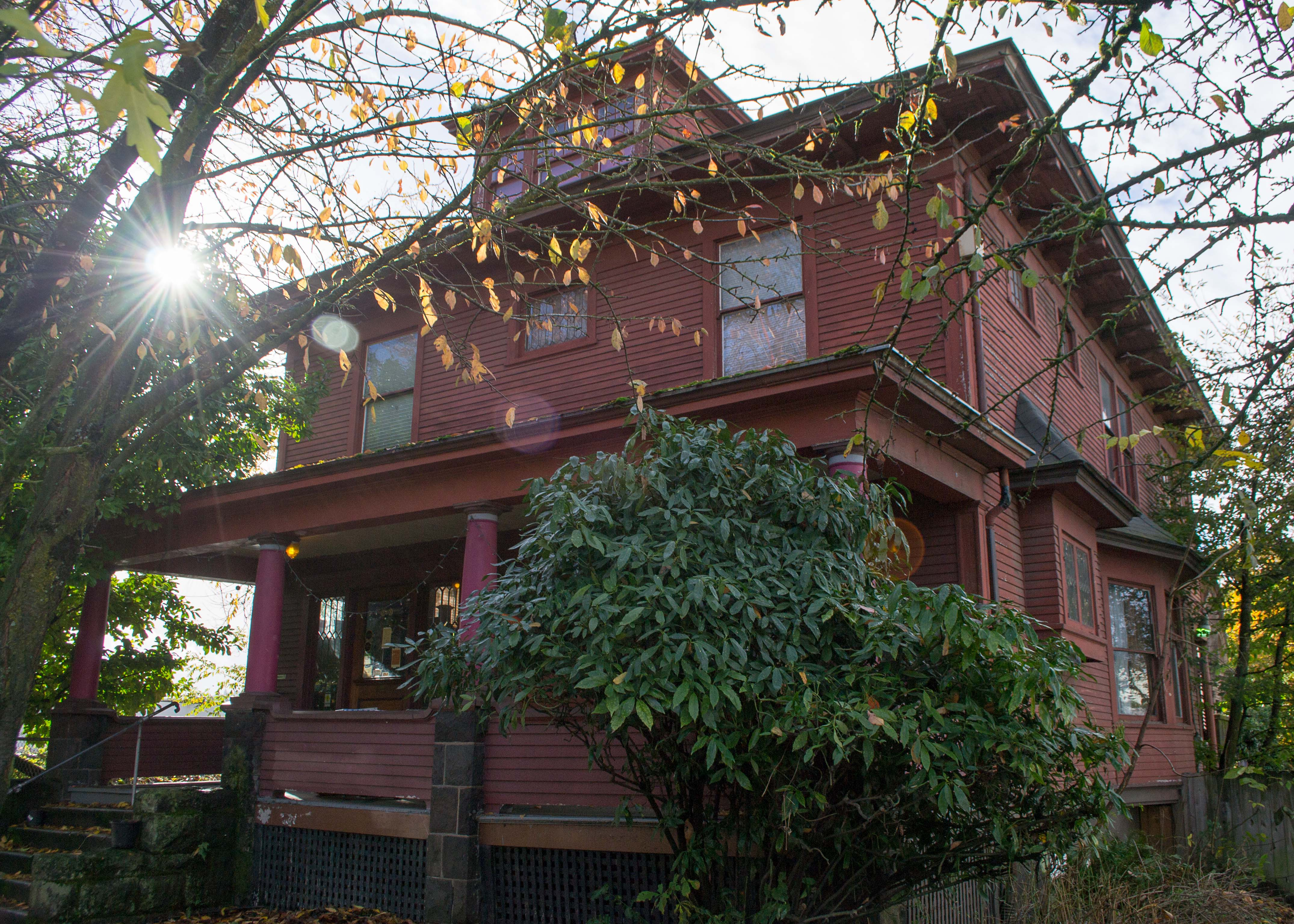 The Rimsky-Korsakoffee House in Portland's Buckman neighborhood